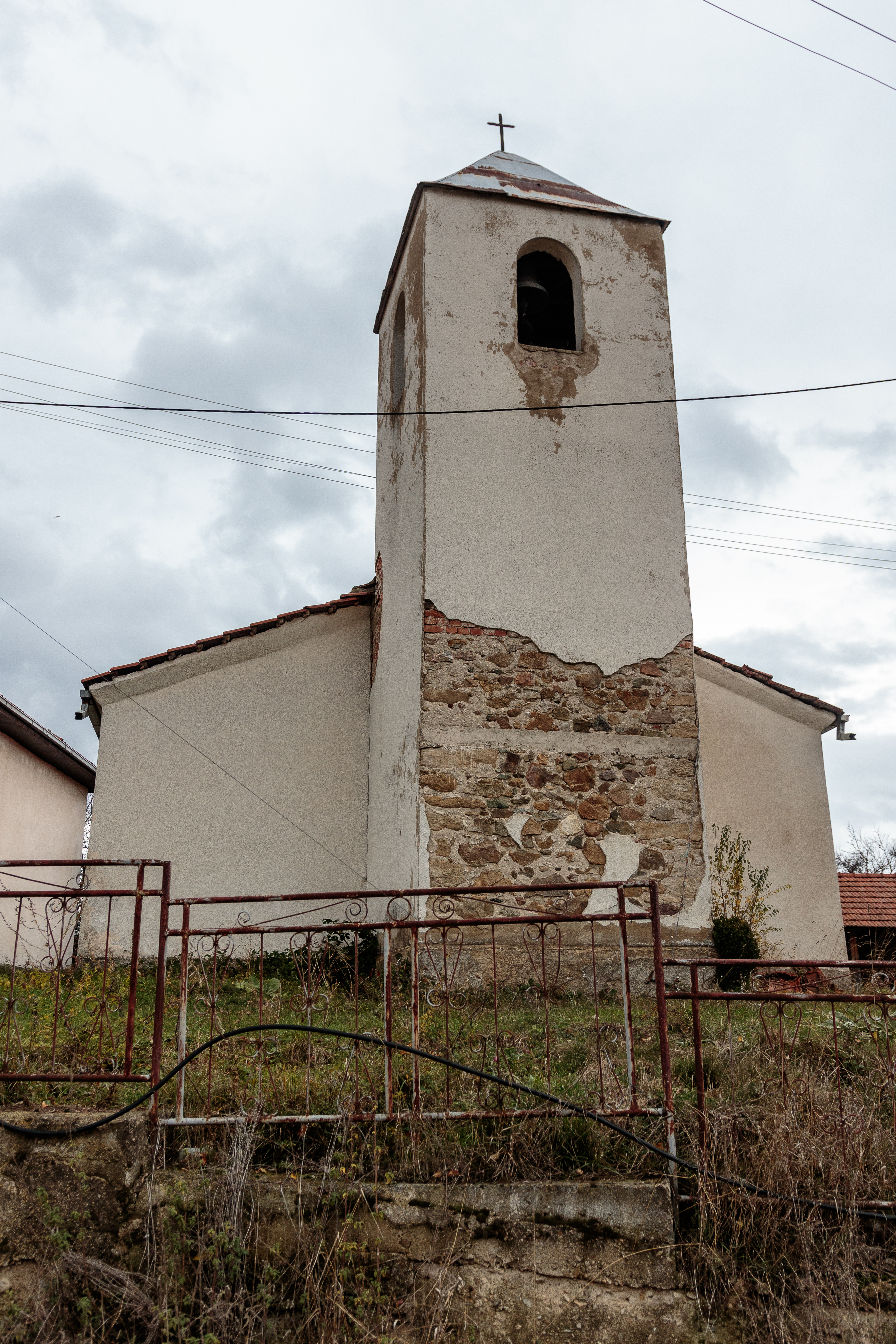 Church of the Ascension of Christ in the village of Umlena, Maleševija, Macedonia